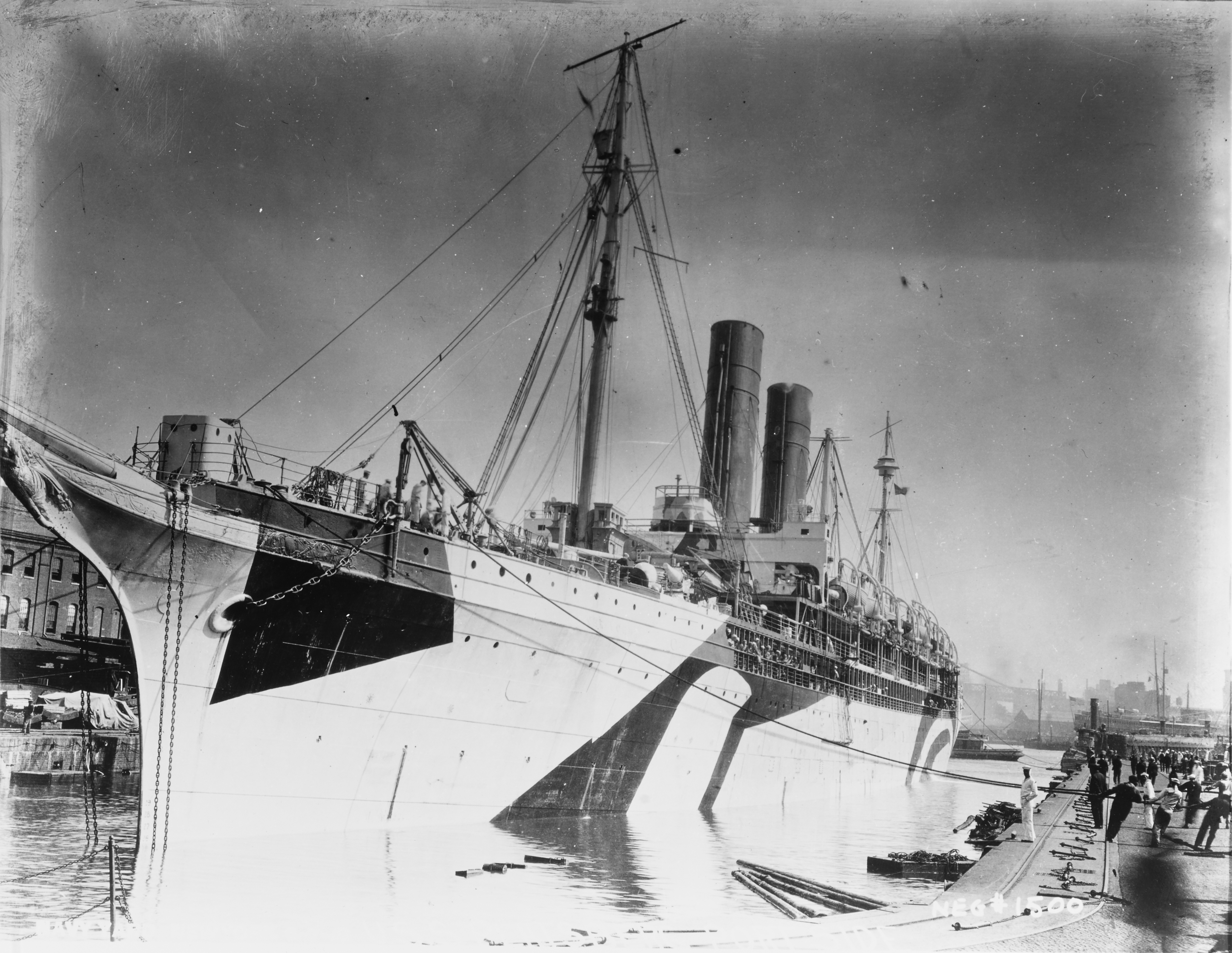 "(ID # 1645) At the New York Navy Yard on 7 June 1918, shortly before her first trans-Atlantic voyage as a U.S. Navy ship. She has been freshly painted in pattern camouflage. U.S. Naval History and Heritage Command Photograph." This version has been cropped, slightly rotated and converted from tiff to jpg format.